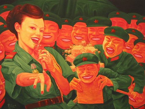 The Day before I Went Away 2008 oil on canvas 320 × 227cm. Queensland Art Gallery, Gallery of Modern Art (GoMA)